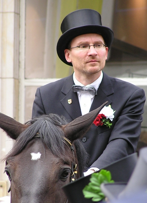 Michael Buhre, Bürgermeister von Minden, Nordrhein-Westfalen. Diese ungewöhnliche Szene gehört zum Brauchtum des Freischießens Minden, einem Volksfest in der Stadt.